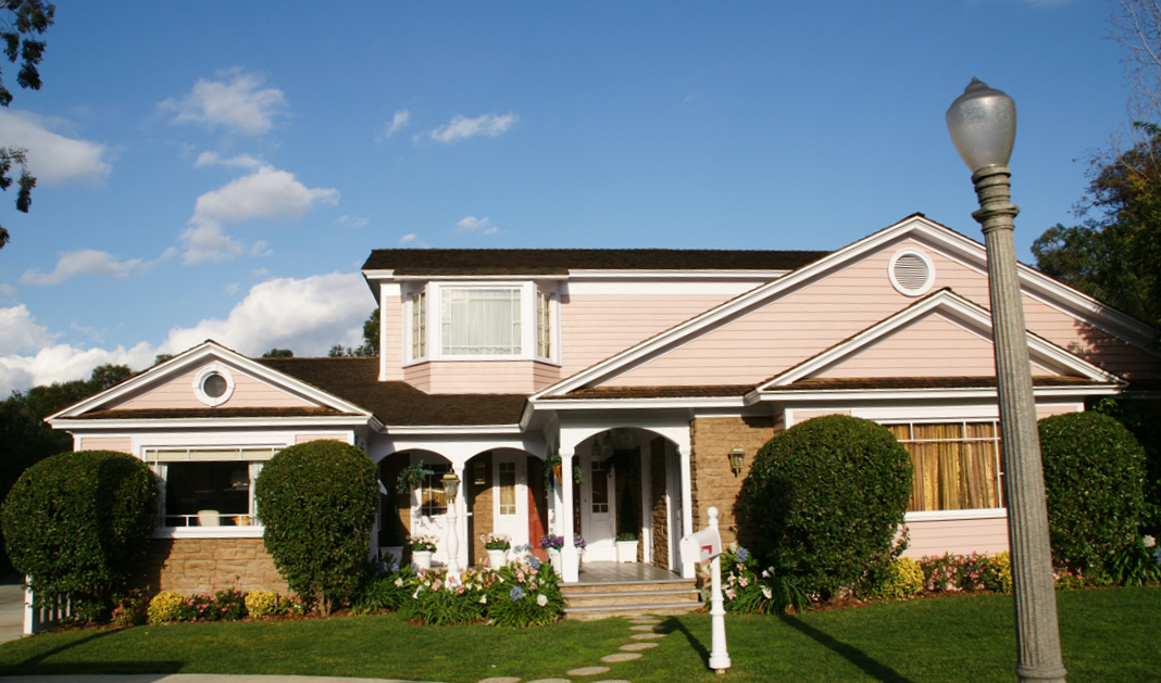 This house has been built in 2005 for the purposes of Desperate Housewives. In the TV show, the house is located on 4362 Wisteria Lane and occupied by Renee Perry (Vanessa Williams) since season 7. It was previously occupied by Edie Britt (Nicollette Sheridan) from seasons 2 to 5.